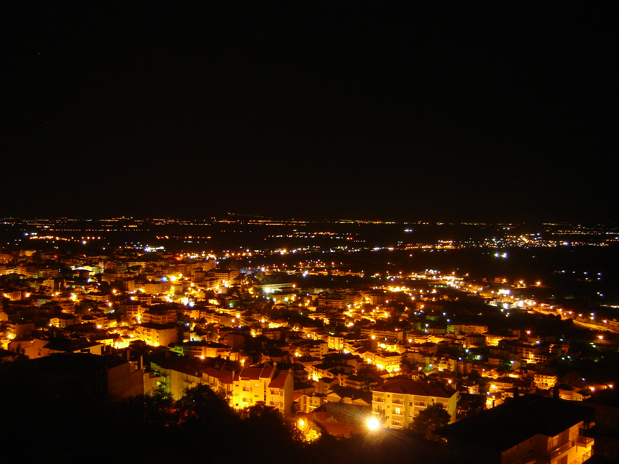 Veria downtown seen from the Villa Vikela Hill. August 2007.